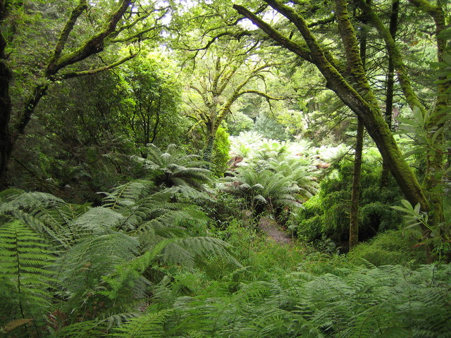 Láithreach (Lauragh): Derreen Garden This woodland garden was designed and planted by the 5th Marquess of Landsdowne in the 1870s. The most remarkable features in the garden are the tree ferns, Dicksonia antarctica. A grove of these tree ferns, which originally come from Australia, Tasmania and New Zealand, was planted here around 1900, and is shown in the photograph. These tree ferns have become completely naturalised, constantly renewing themselves by self-sown spores. A couple of individual examples can be found in the grid square to the north 263195